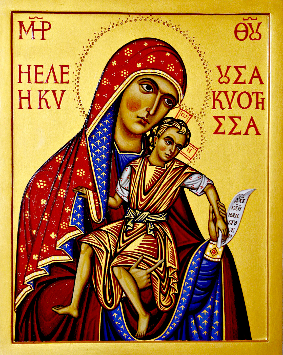 druja-spahadlivaja